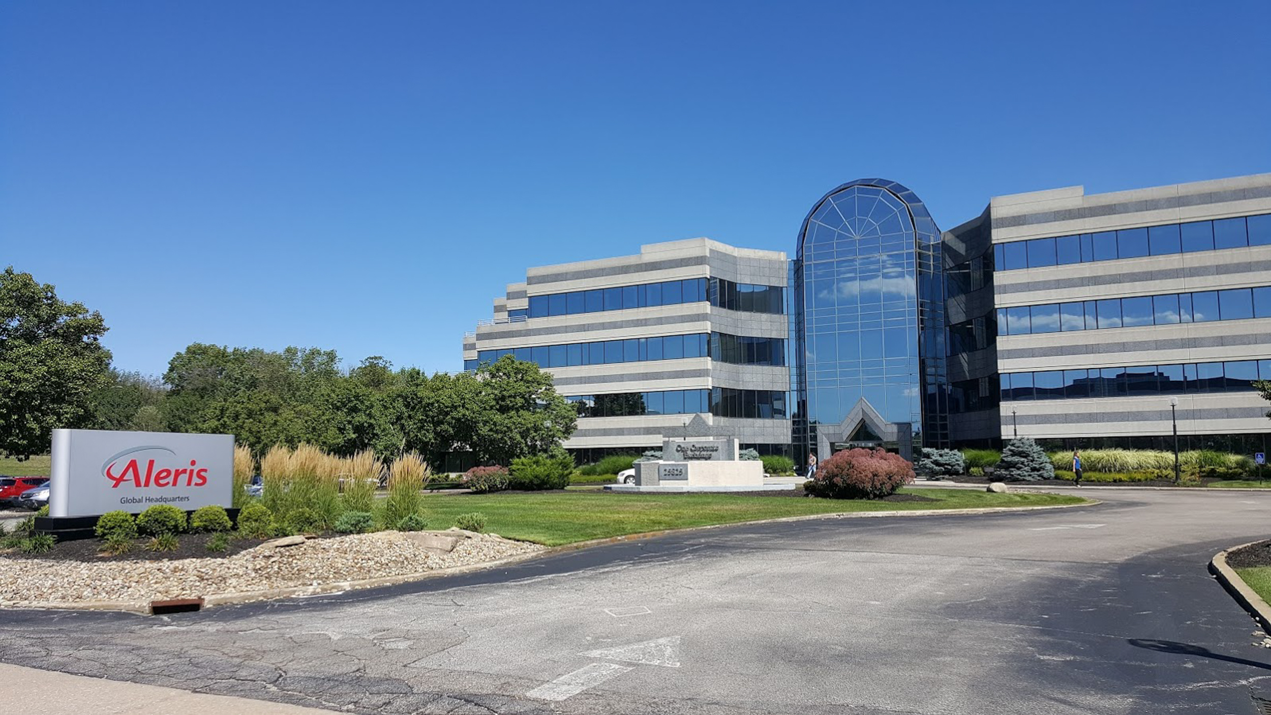 Aleris corporate HQ 02 - Beachwood Ohio